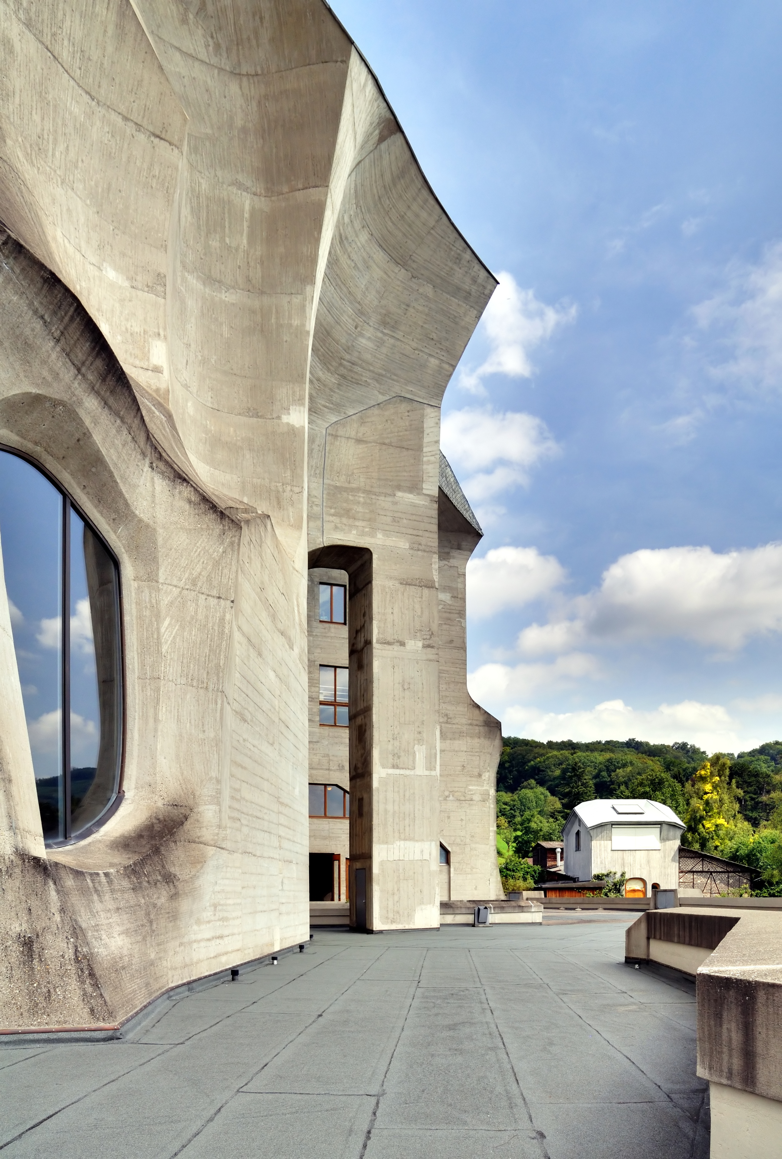 Goetheanum: south terrace